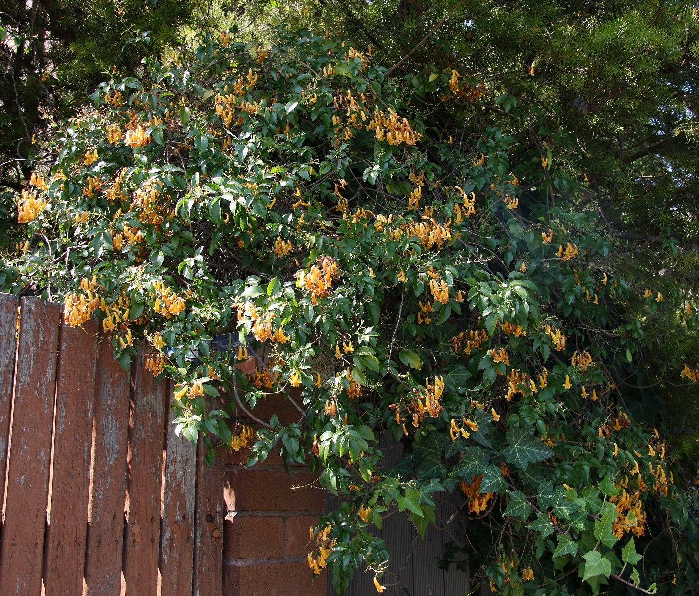 Yellow-flowered cultivar of Pandorea pandorana, cult. Sydney